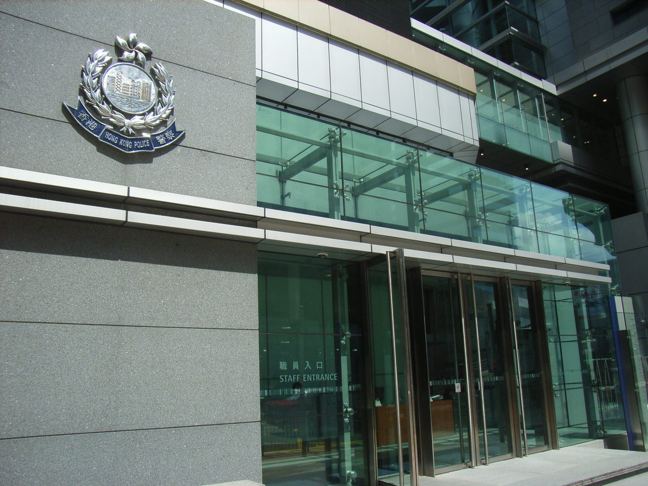 Hong Kong Island Regional Headquarters, 軍器廠街 Arsenal Street, Wan Chai, Hong Kong photo by QWB656